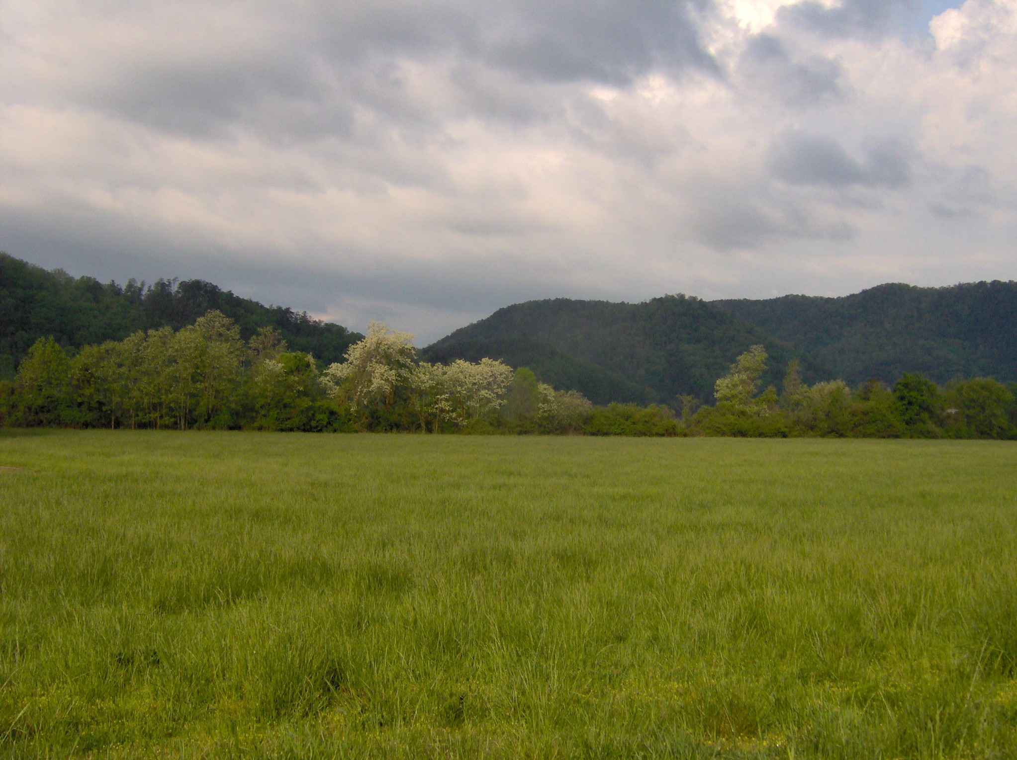 Looking toward the site of the ancient Cherokee village of Tallassee in Blount County, Tennessee, in the southeastern United States. The Chilhowee Lake impoundment of the Little Tennessee River— which flooded the site in 1957— is just beyond the treeline.